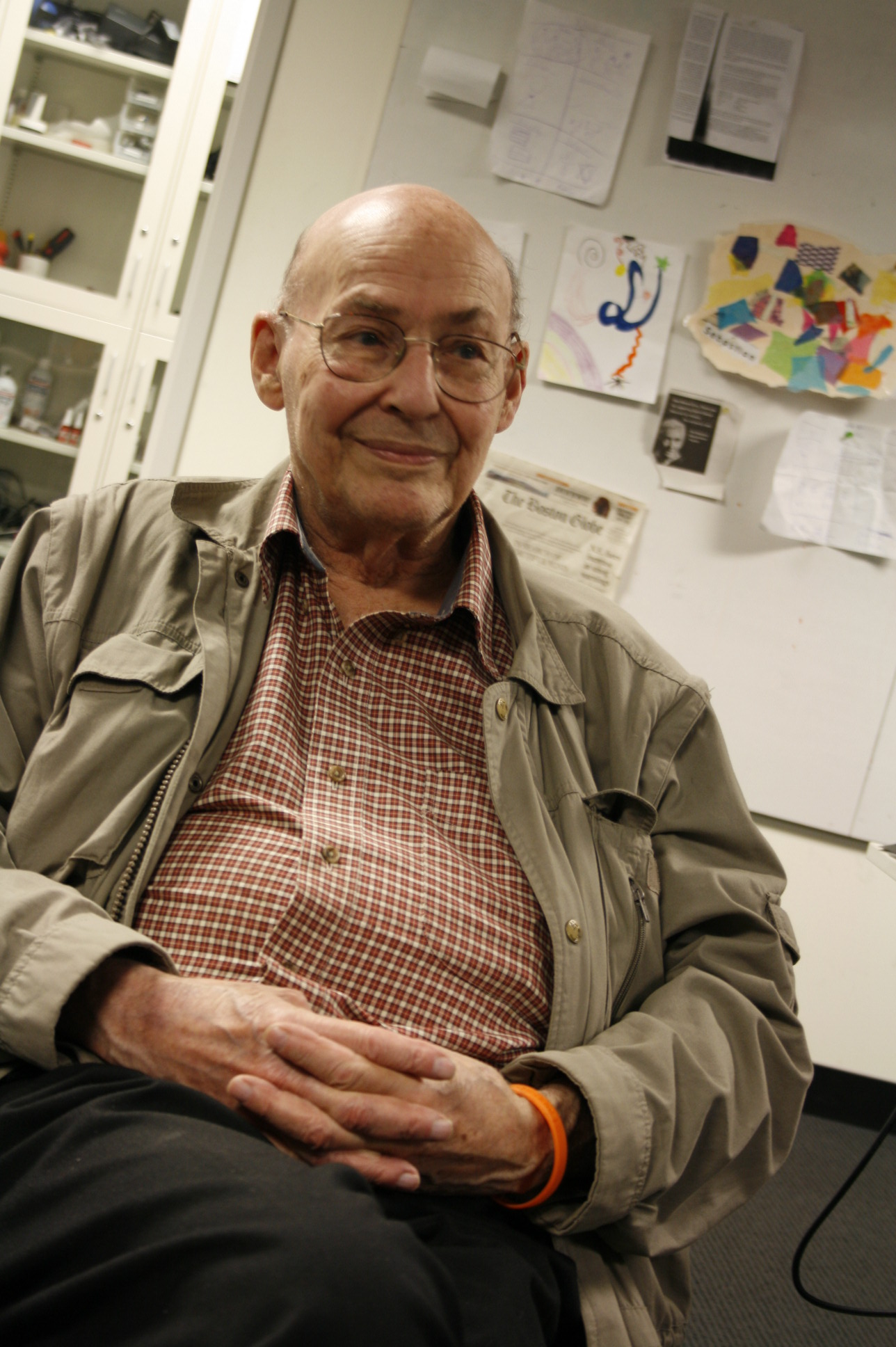 Marvin Minsky was visiting the OLPC offices and picked up a Firefox wrist band.